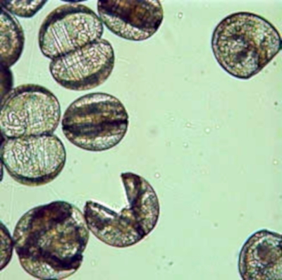 Glochidia of Elliptio complanata, the eastern elliptio mussel. 2011.